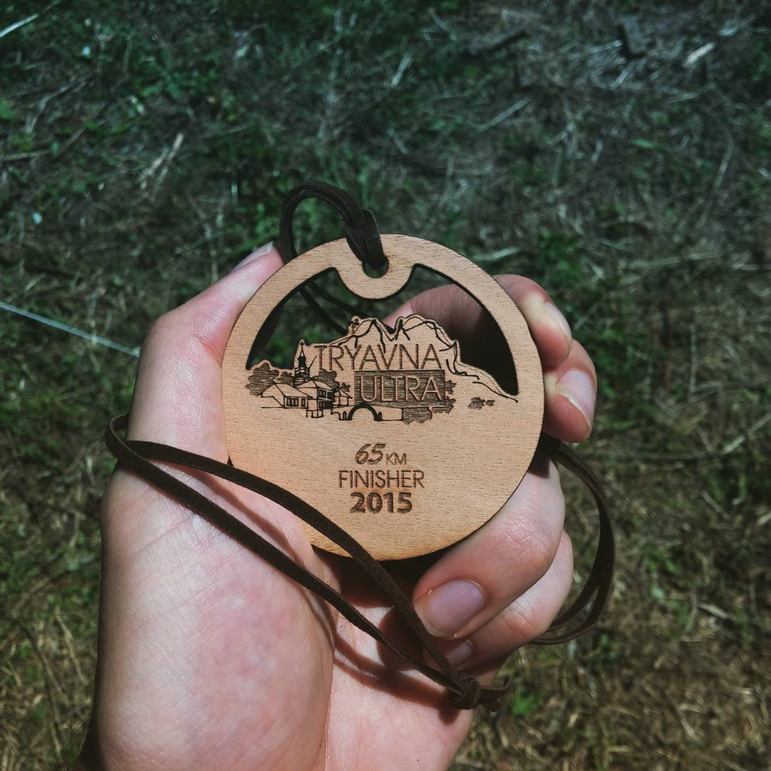 A medal for every finisher in Tryavna Ultra 65km 2015 ultramarathon